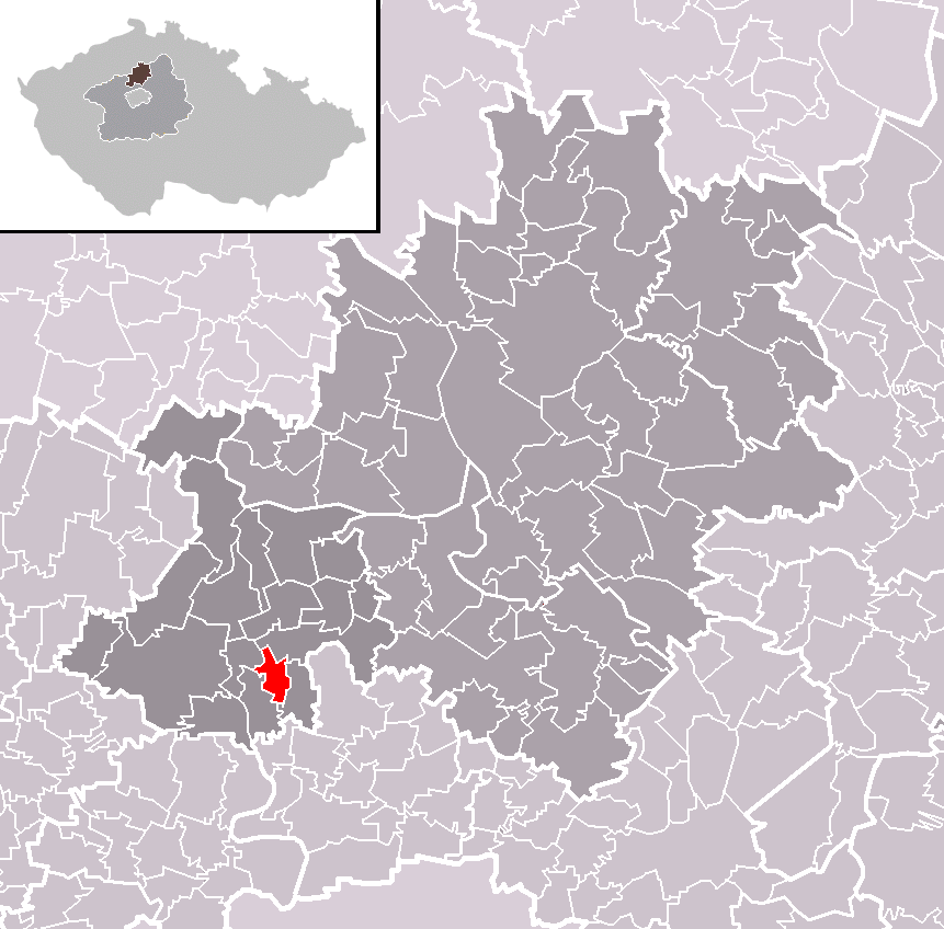 Location of Kozomín municipality within Mělník District and administrative area of Kralupy nad Vltavou as a Municipality with Extended Competence.